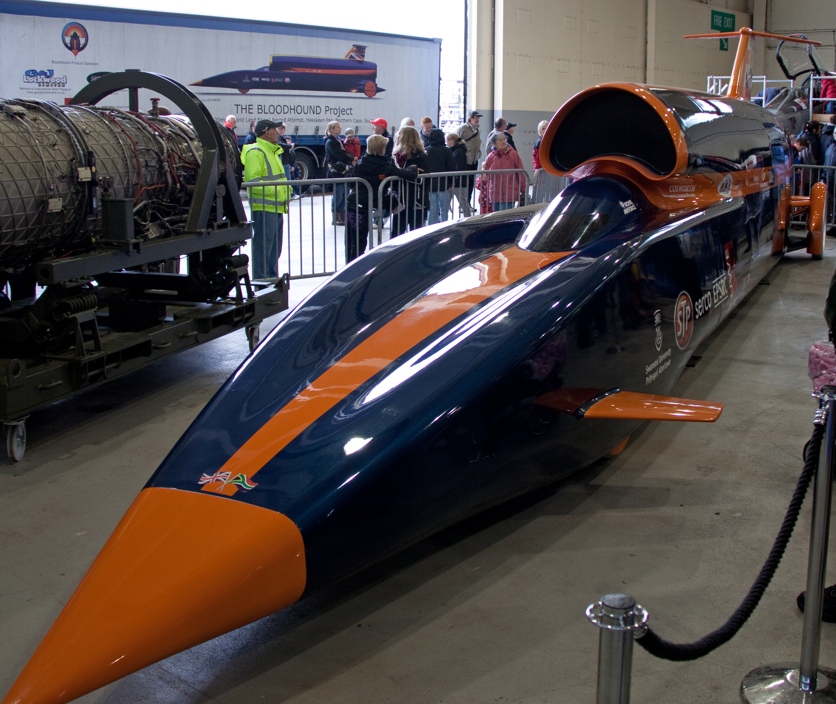 The 1000mph Land speed record project